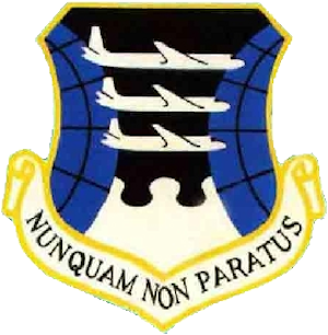 {The image is that of the official insignia of the 1611th Air Transport Wing and as part of the Official Air Force Approval Process (Air Force Regulation 900-3) a release of copyright rights was obtained by the Air Force, This Insignia was assigned to a 1611th ATW that discontinued on 8 Jan 1966 and was replaced by the 438th Military Airlift Wing, and the rights to the insignia was approved for transfer to the 438th MAW on 16 May 1966.)